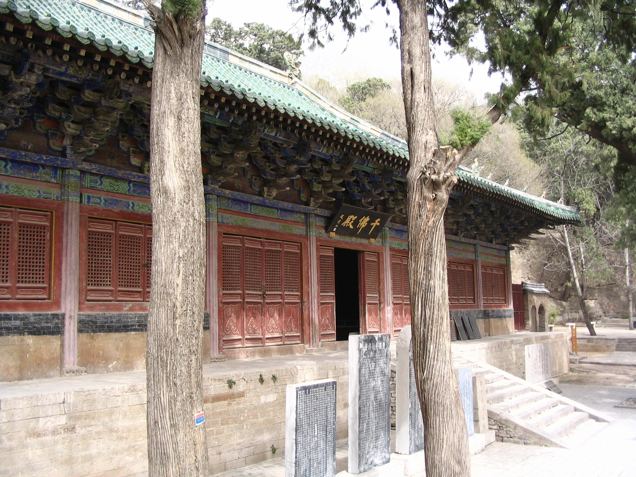 "Thousand Buddha Hall" at Lingyan Temple, Shandong, China